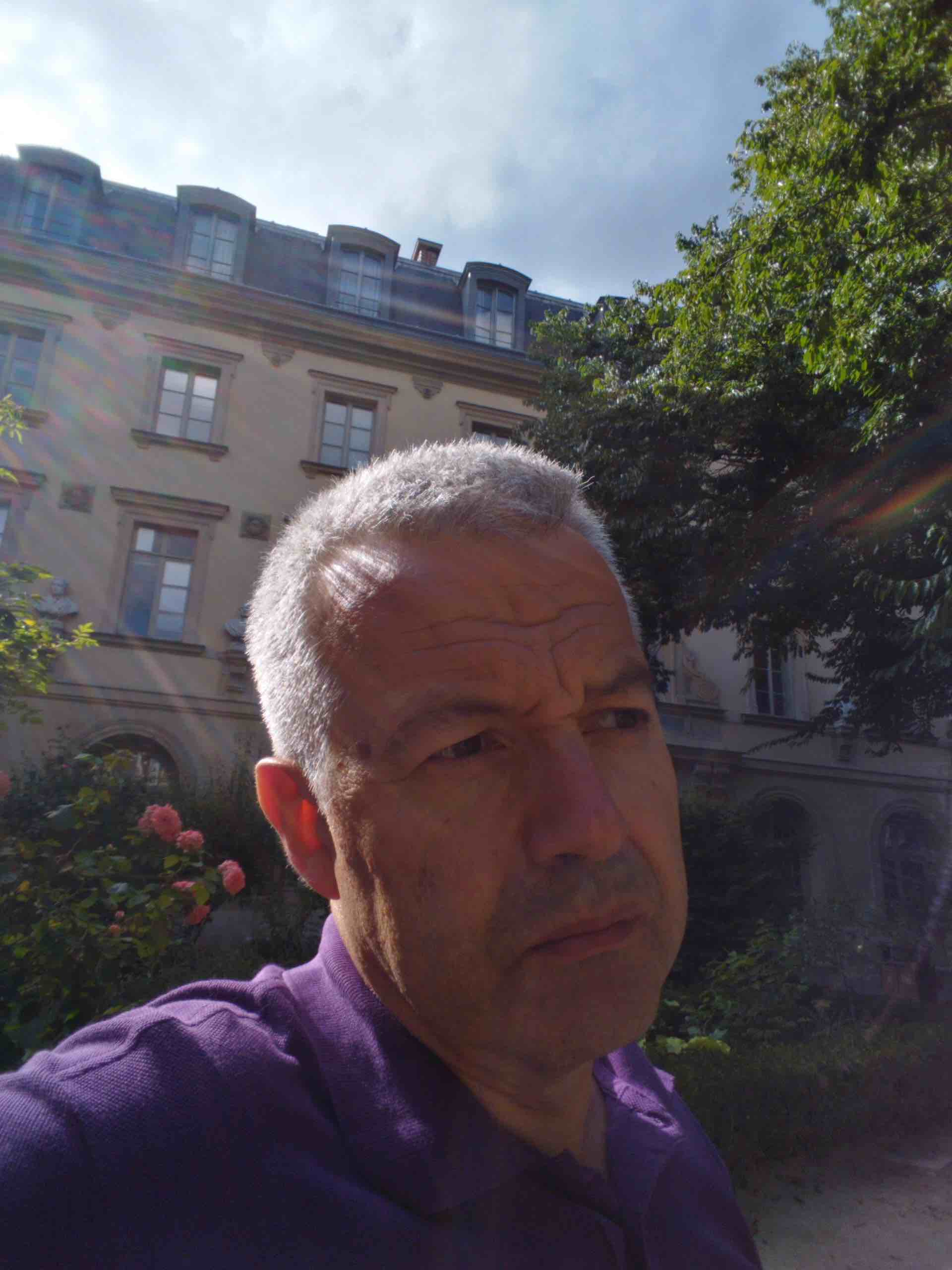 François Golse, Ecole normale supérieure, 2019